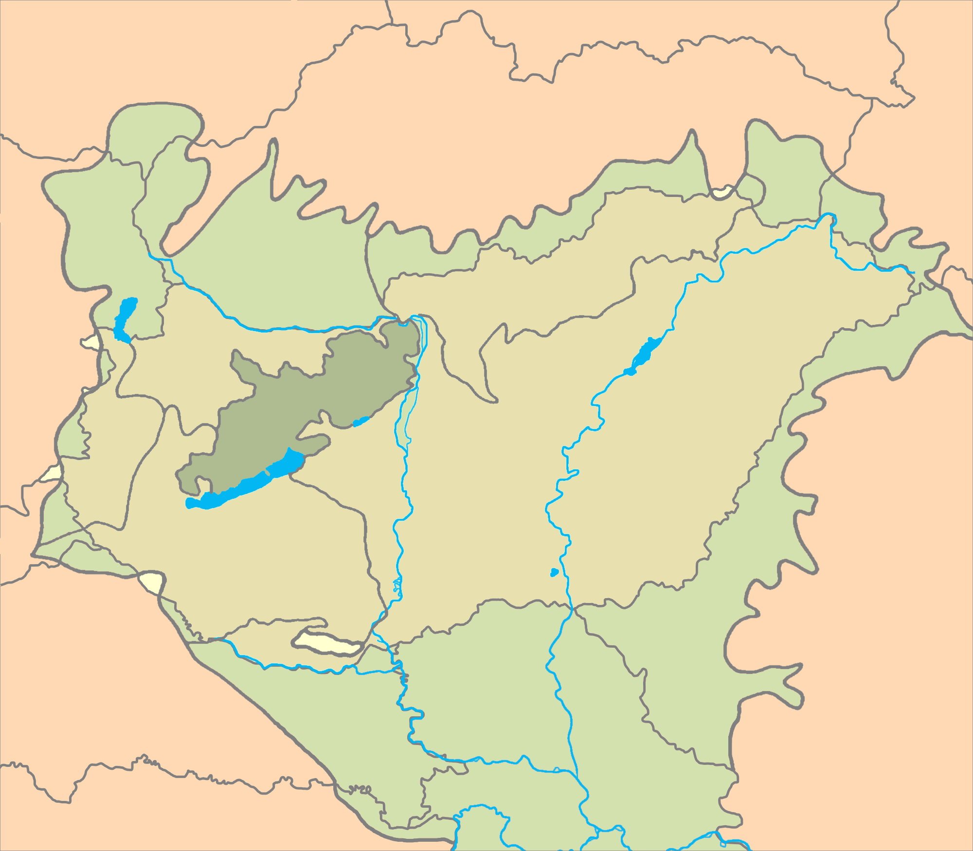 Bakonyicum floristic district in Hungary.